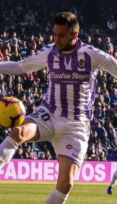 Real Valladolid - Rayo Vallecano, 18th fixture of the 2018-19 La Liga, January 5, 2019.